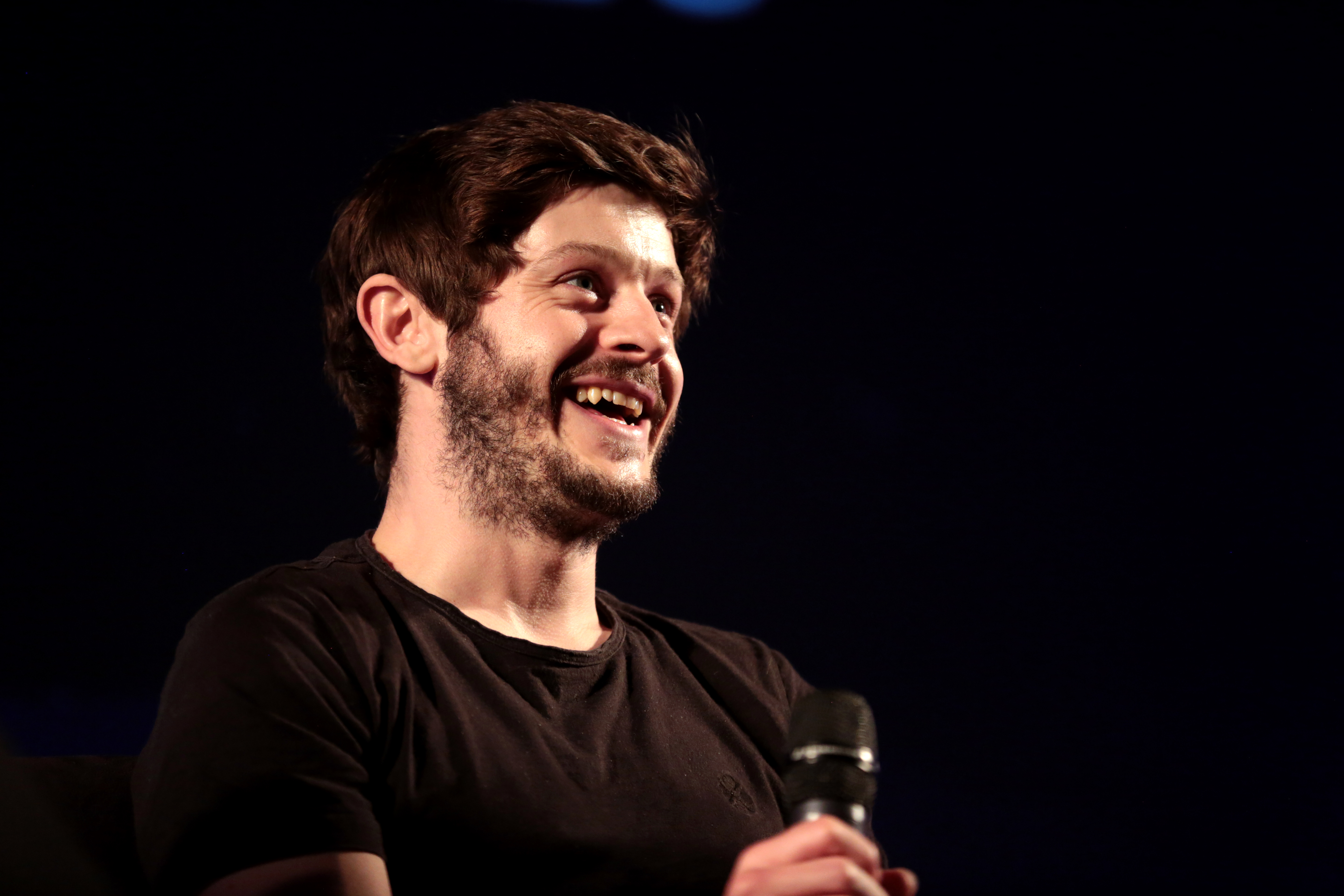 Iwan Rheon speaking at an event in Nashville, Tennessee.